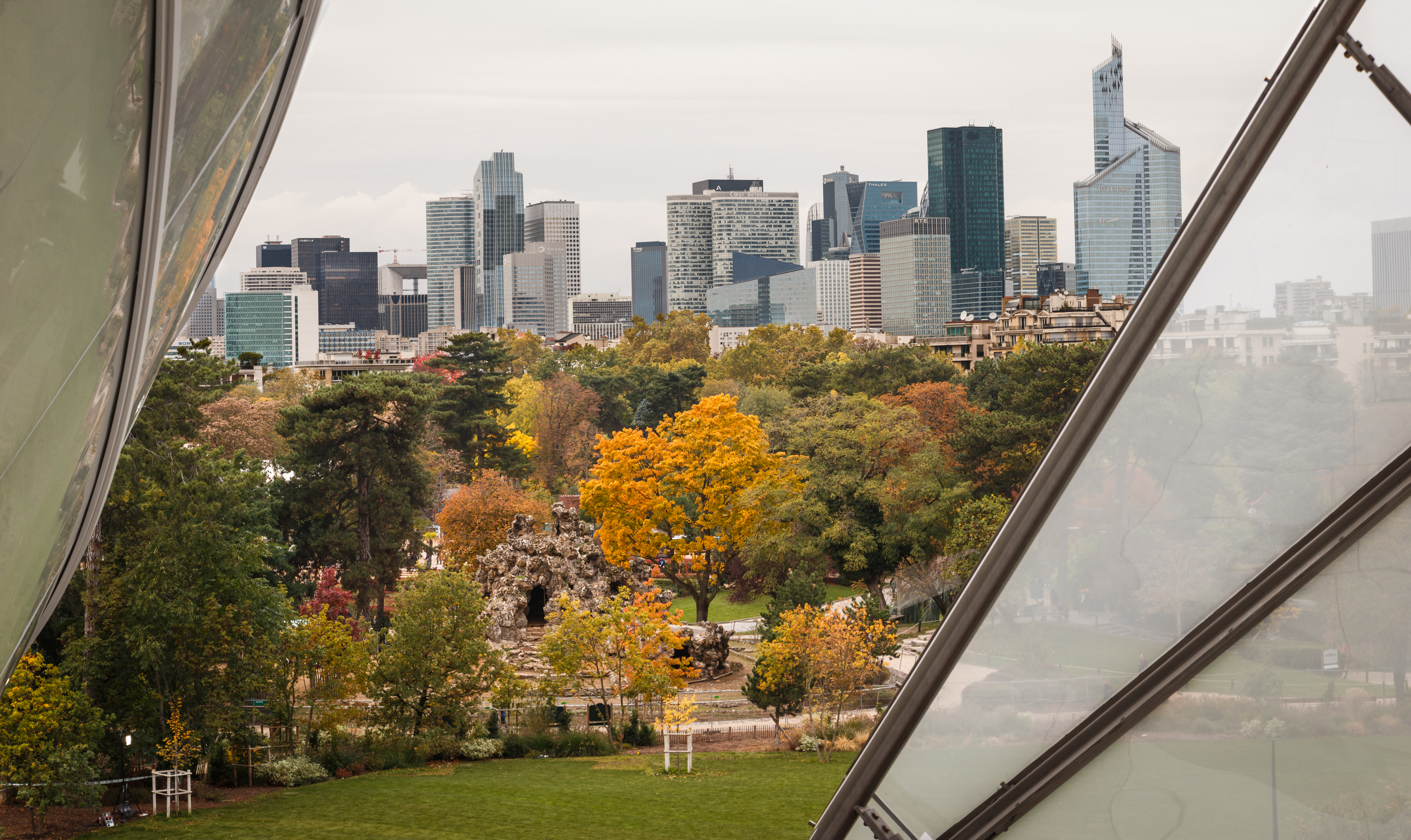 La Defense from Foundation Louis Vuitton, Paris, France.